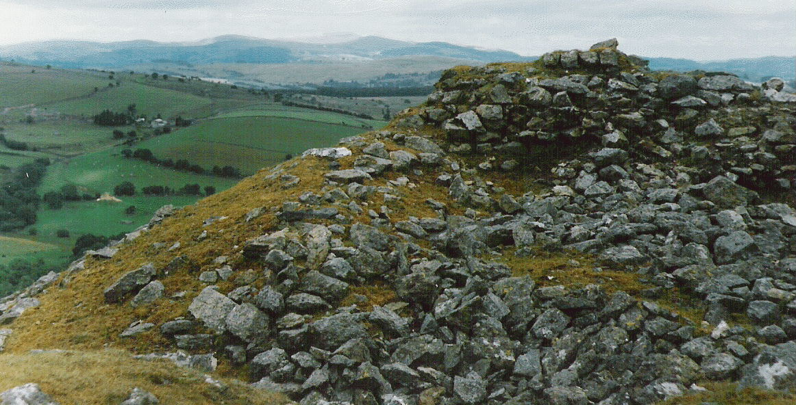 Remains of the tower of Castell Carndochan (Carndochan Castle), Gwynedd, Wales.